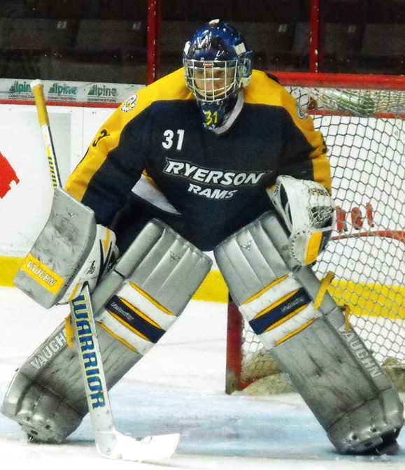 Troy Passingham, Ryerson Rams, CIS Hockey - Photo taken by Devan Mighton of CIS men's hockey.